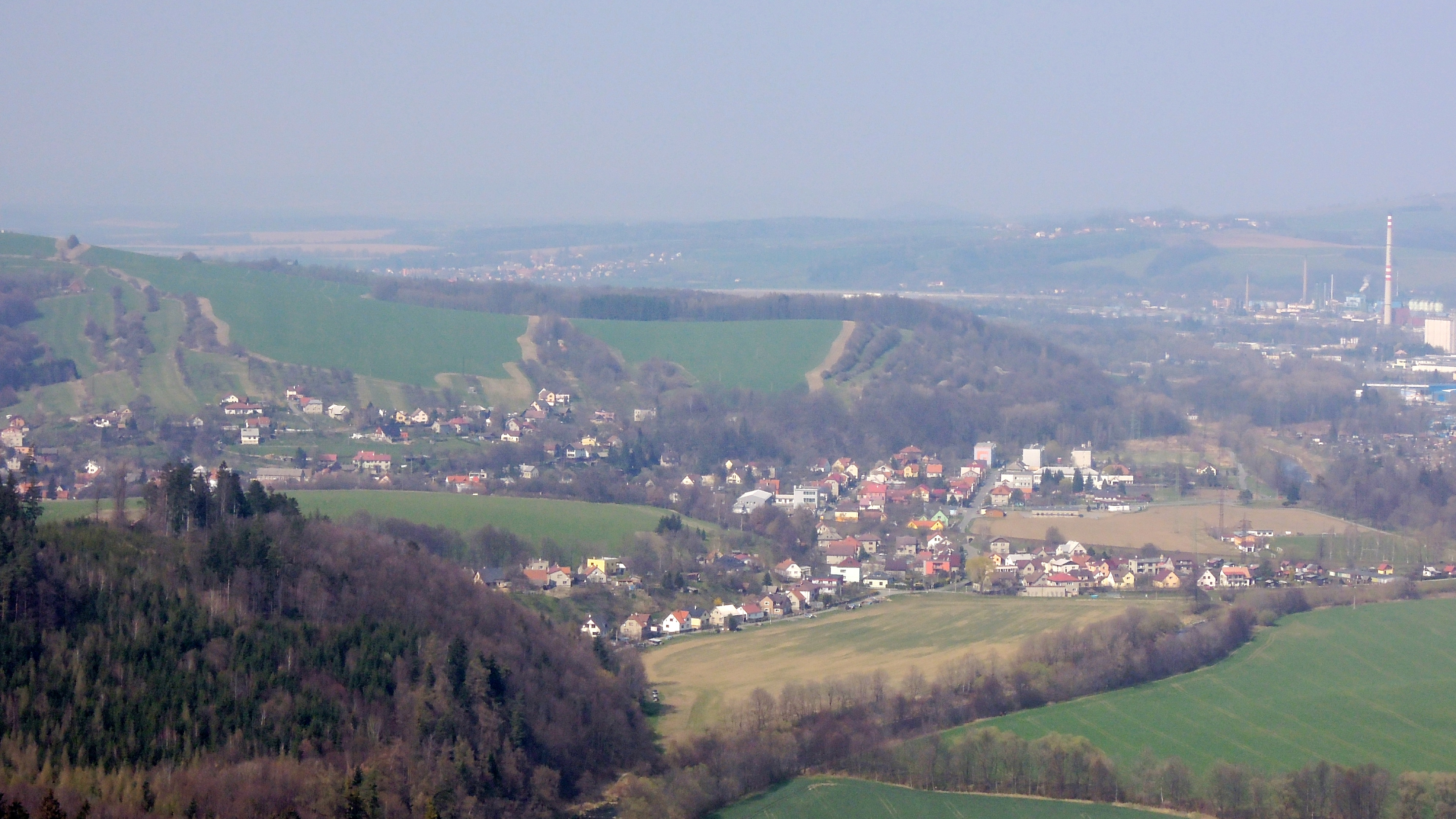 View of Poličná from observation tower in Jarcová, Vsetín District, Zlín Region, Czech Republic